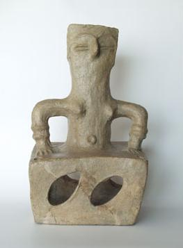 The great mother goddess from Tumba Madzari